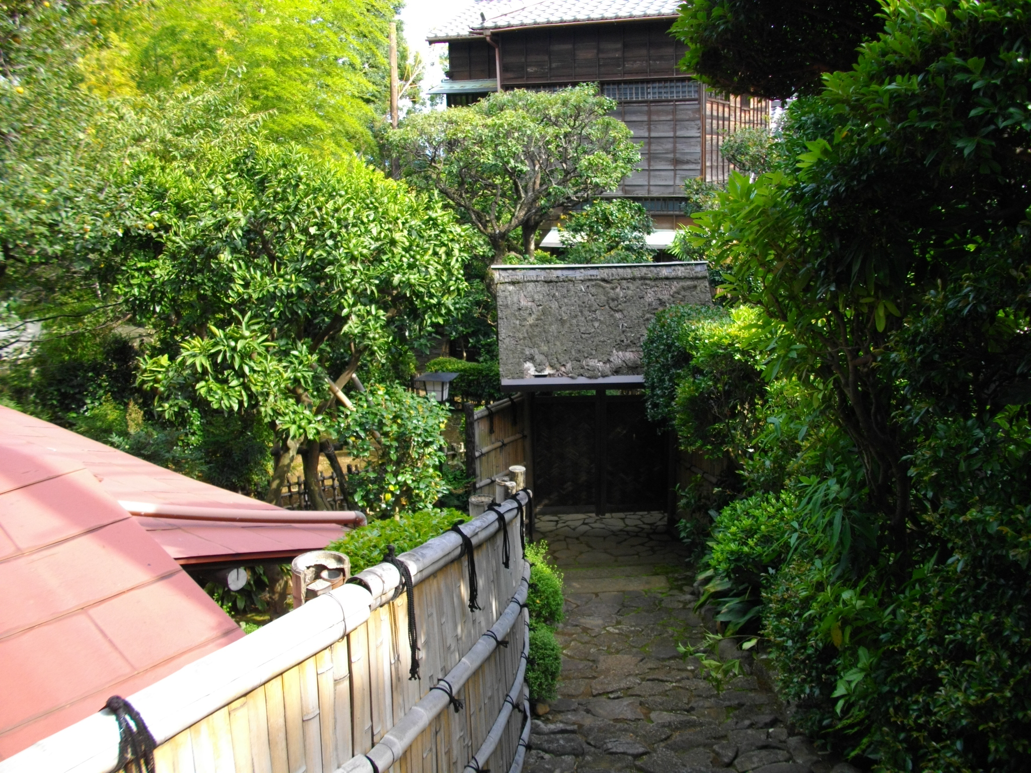 Soshi-sha